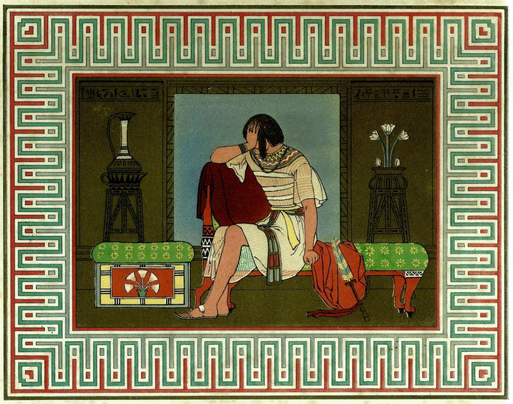 Illustration by Owen Jones from "The History of Joseph and His Brethren" (Day & Son, 1869). Scanned and archived at where it was marked as Public Domain. Text from Book: And Joseph made haste; for his bowels did yearn upon his brother: and he sought where to weep; and he entered into his chamber and wept there. Genesis, C. XLIILV. V. 30.